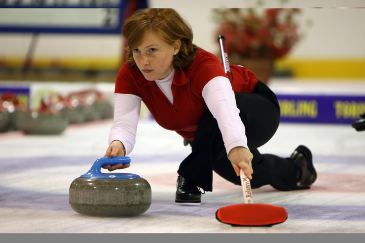 Elettra de col